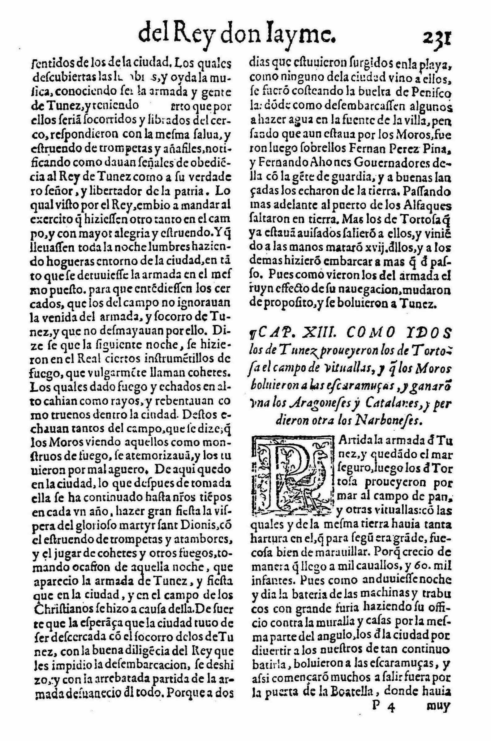 Document explaining the use of rockets by James I of Aragon